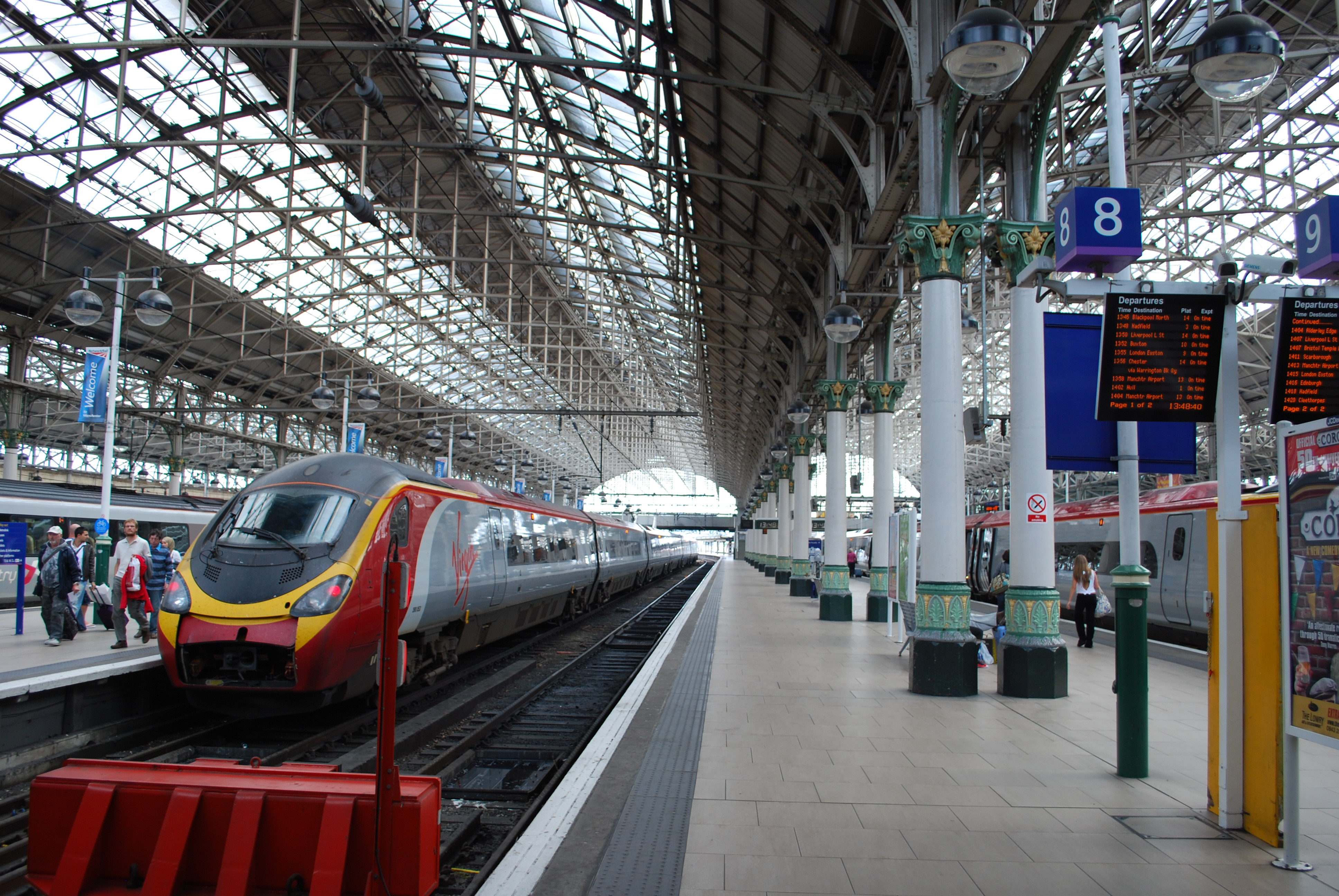 Manchester Piccadilly station, 08/10.